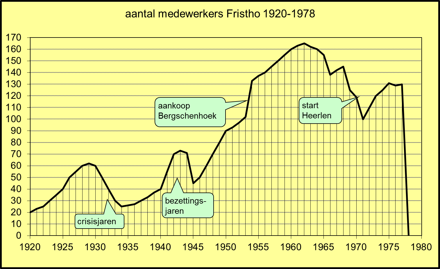 The numbers of employees reflect the up and downs of Fristho